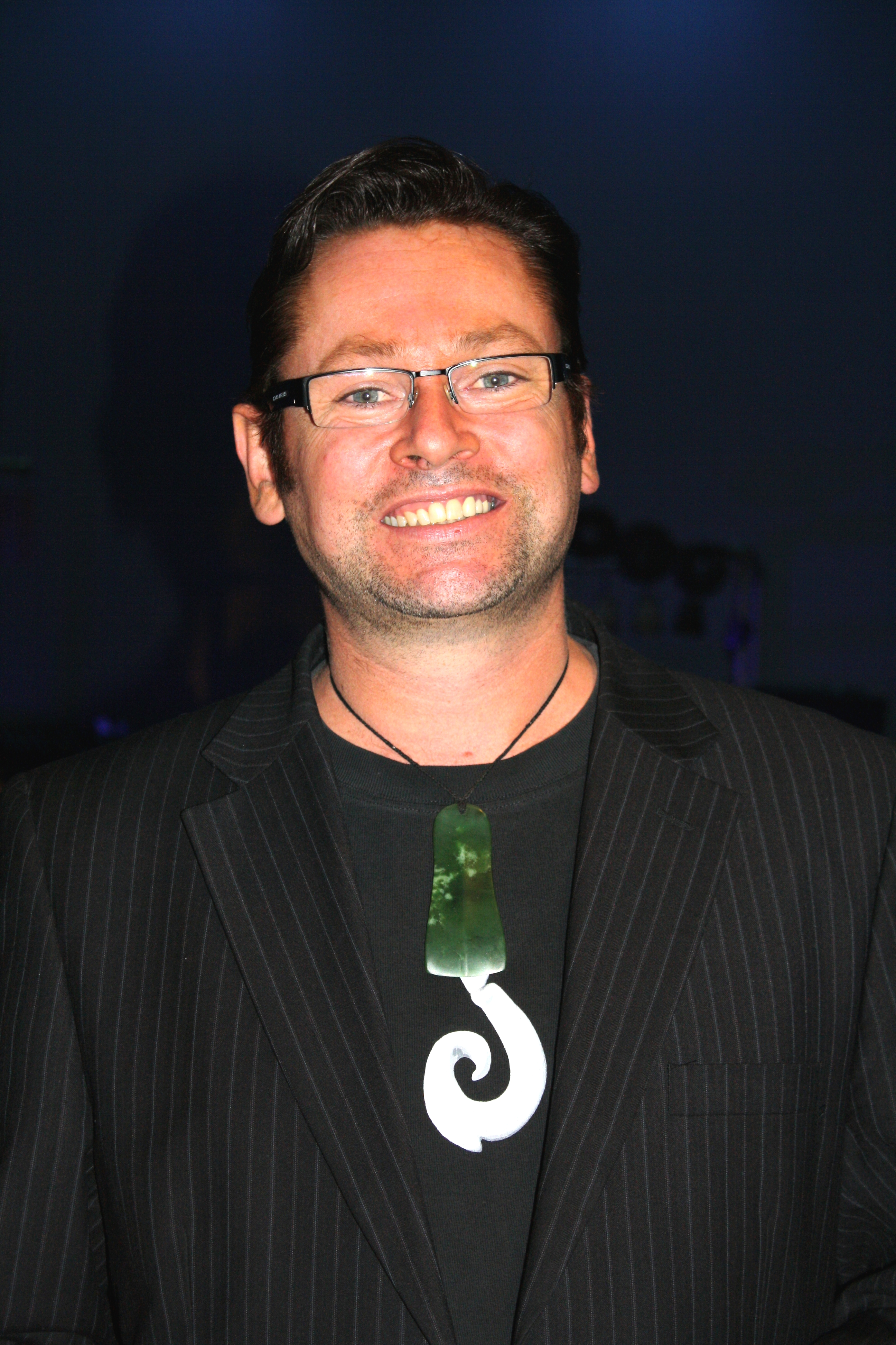 Gareth Farr in September 2009.